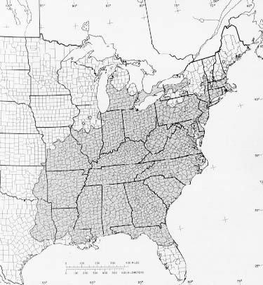 Sassafras albidum range map. Summary USDA Forest Service